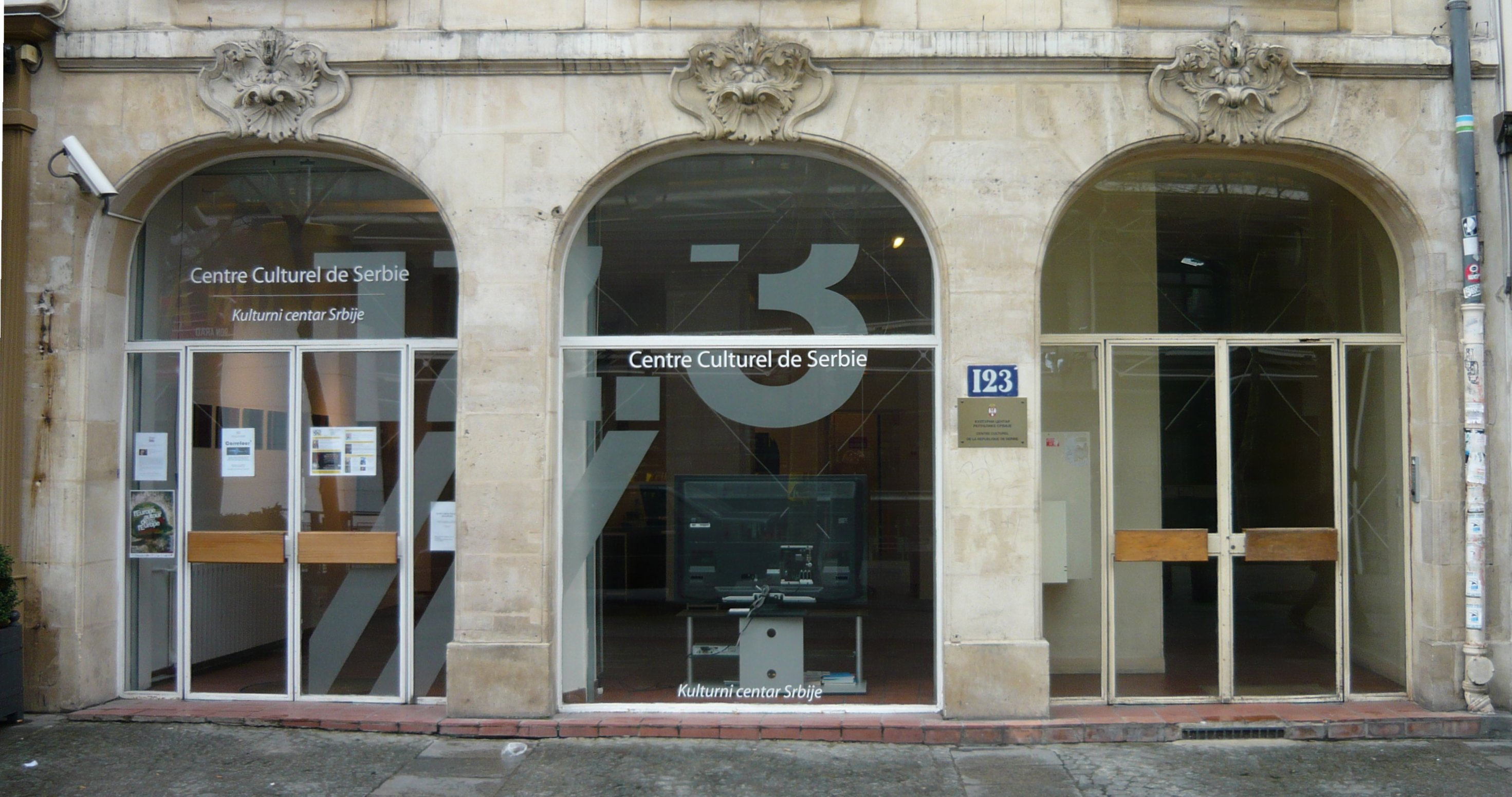 Serbian Cultural Center in France, Rue St Martin 123.